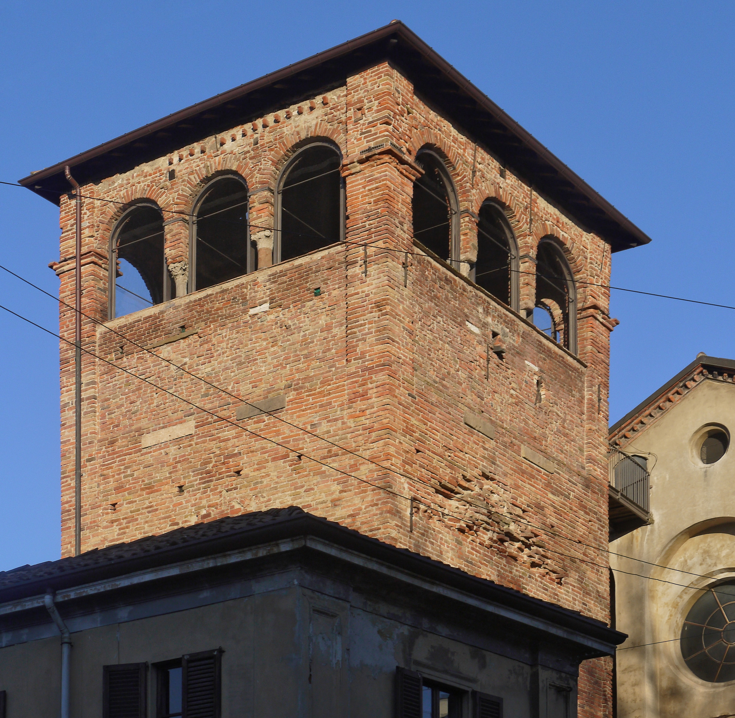 Tower of San Maurizio al Monastero Maggiore.